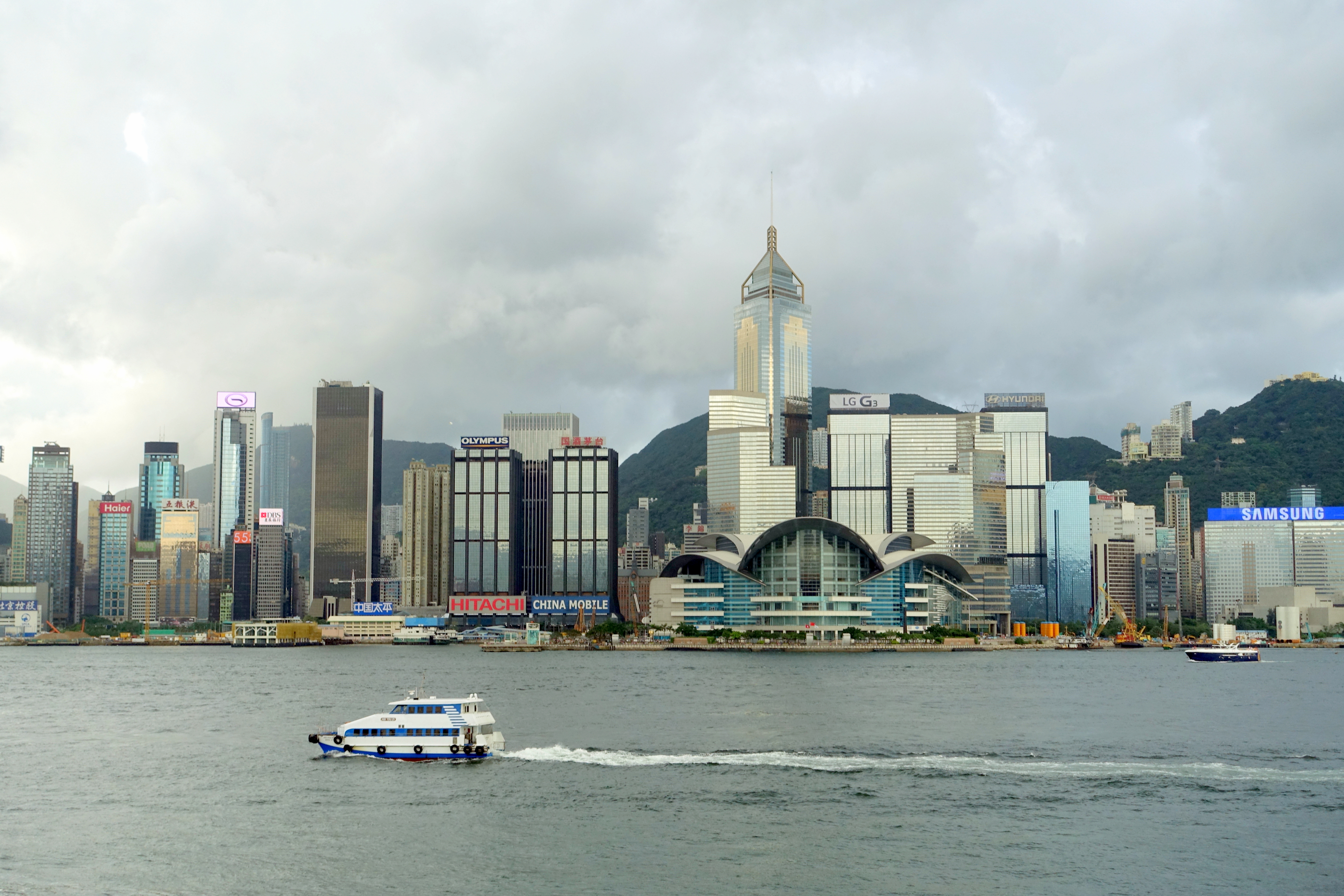 Hong Kong Island from Kowloon Public Pier.